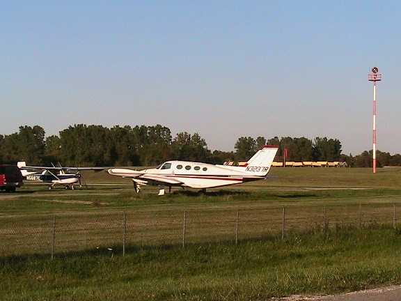 Jewett Field Mason, Michigan - taxiway along entrance road (Aviation Drive)